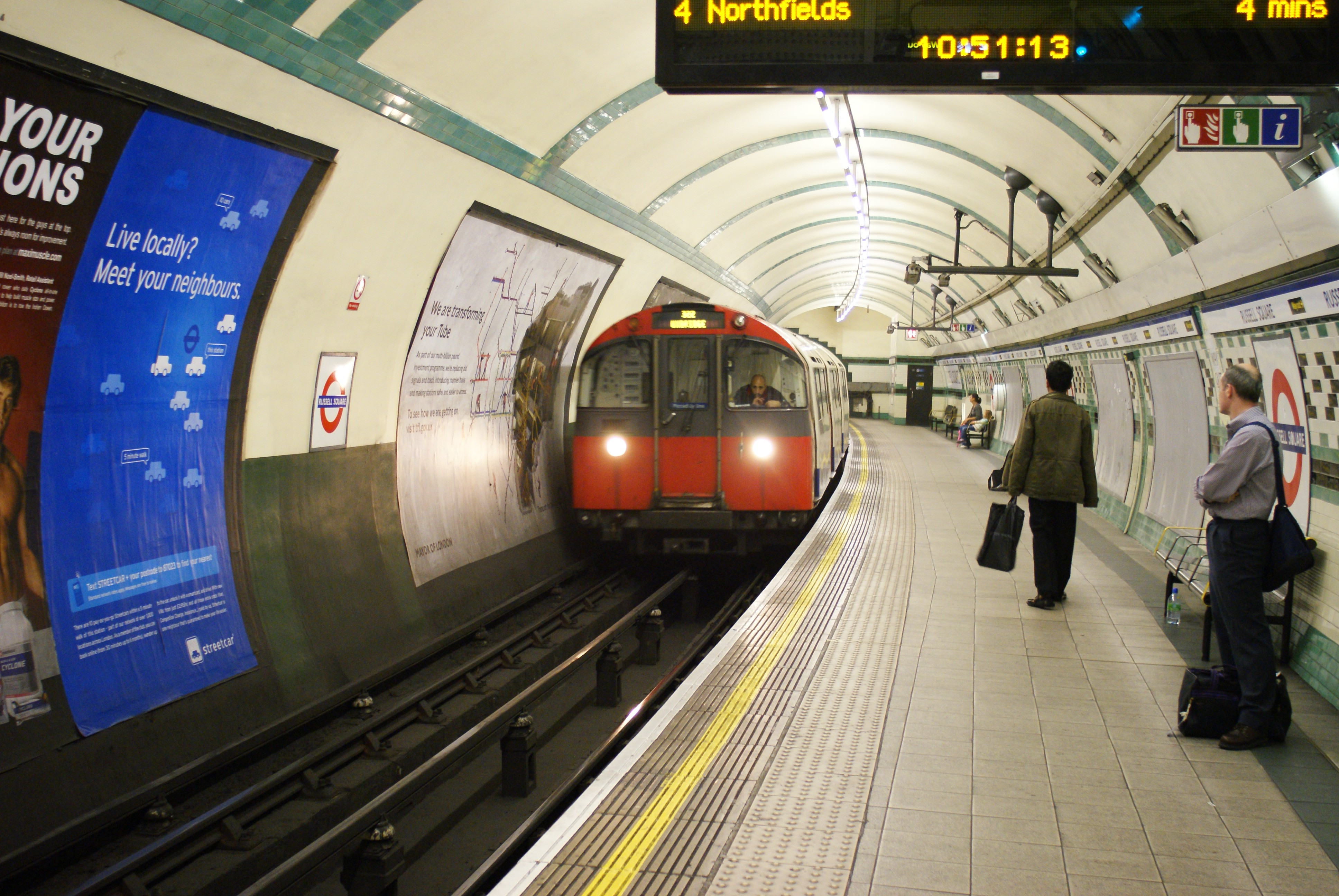 RUSSELL SQUARE-14 020909 CPS